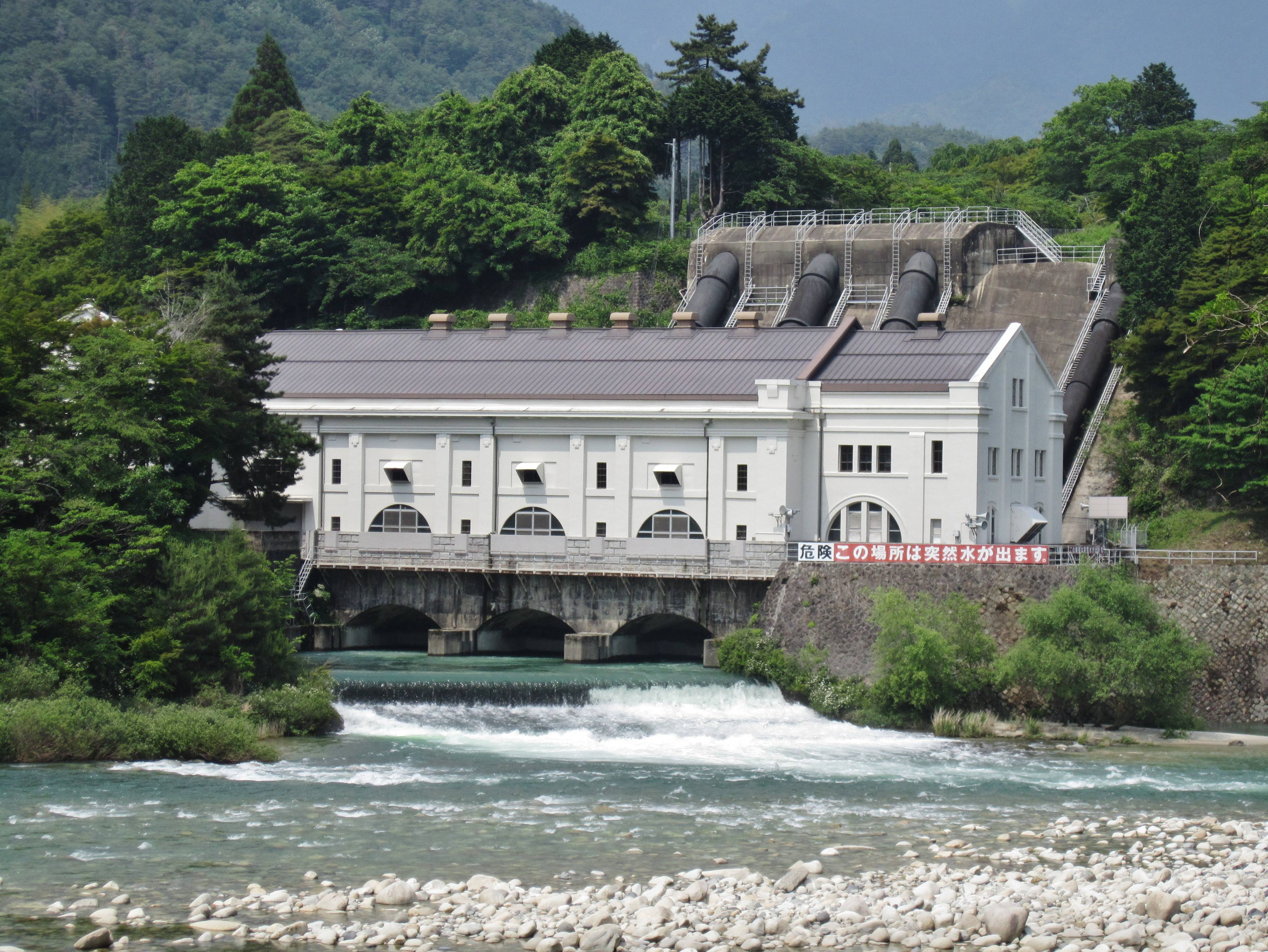 Shizumo power station.